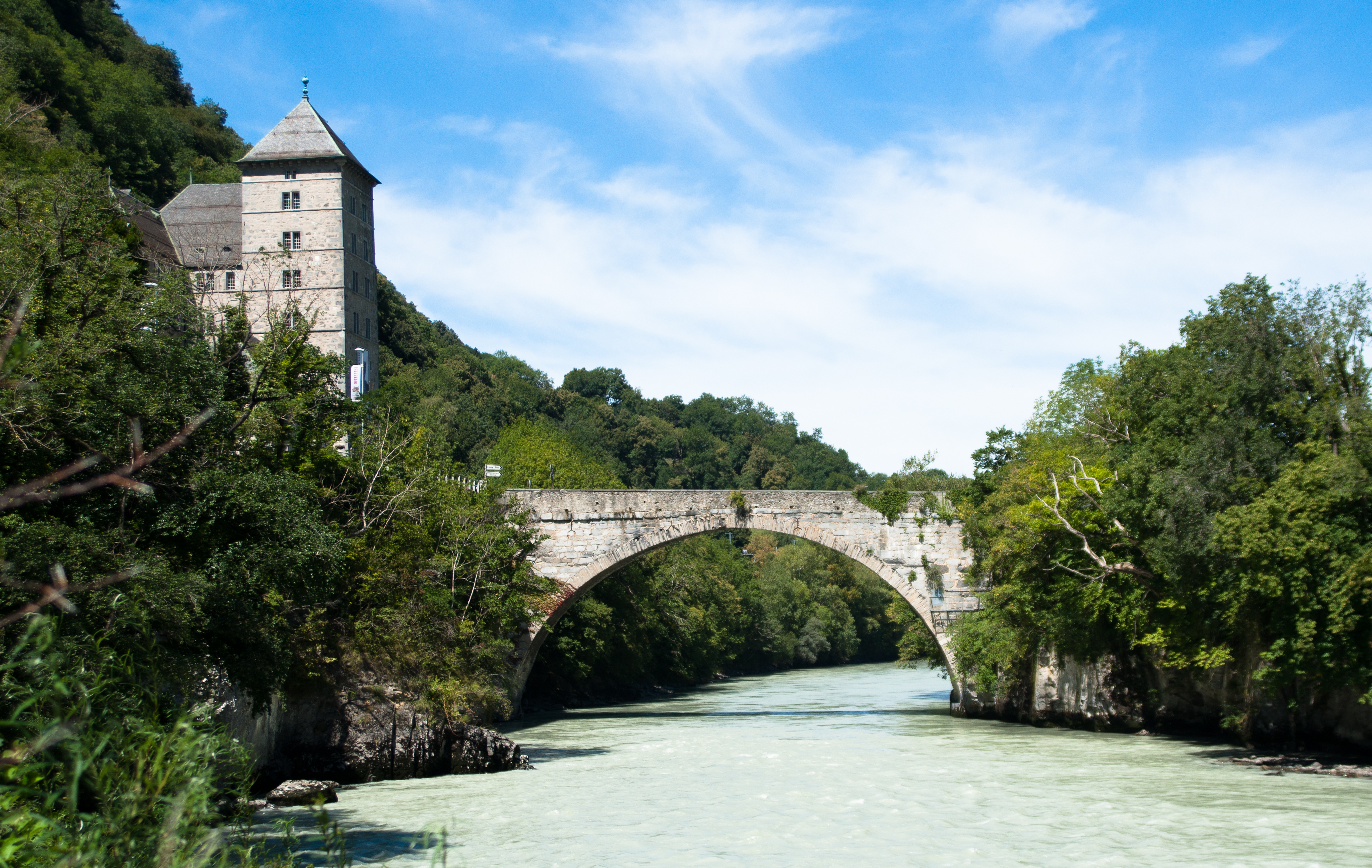 Bridge over the Rhône river, Saint-Maurice, Switzerland. View from the south-east to the north-west.